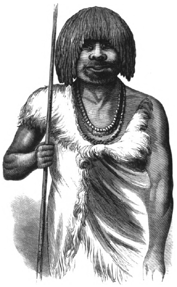 Illustration from The Last of the Tasmanians – Wooreddy, Truganina's husband